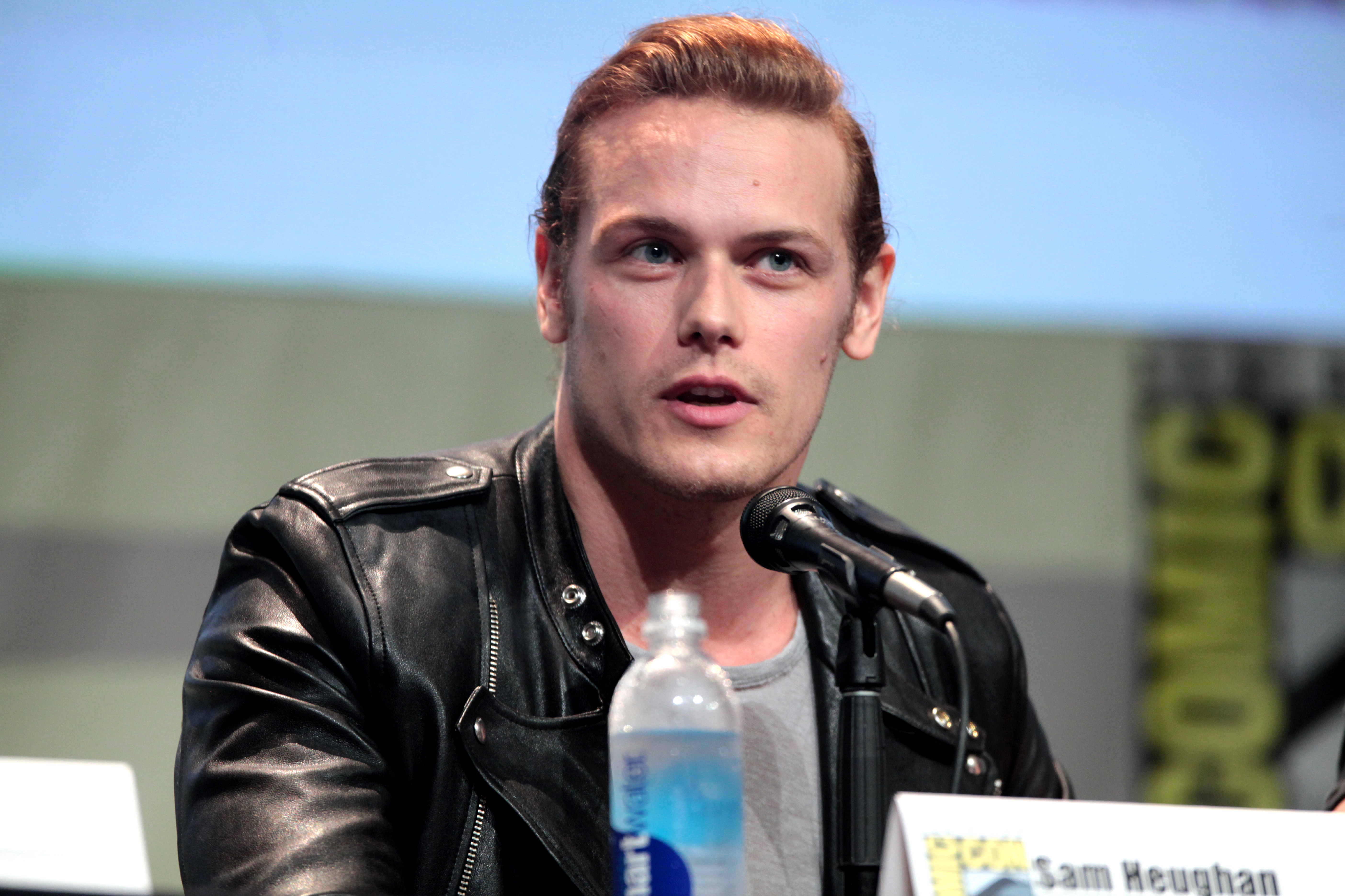 Sam Heughan speaking at the 2015 San Diego Comic-Con International.